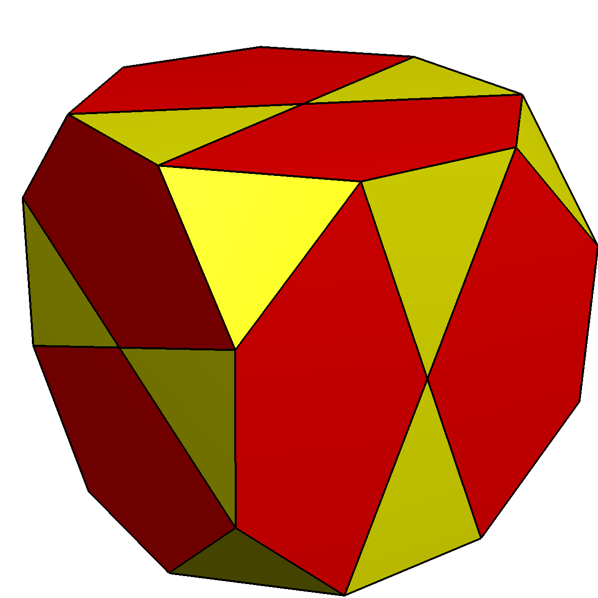 Icosidodecahedron topology in Truncated cube